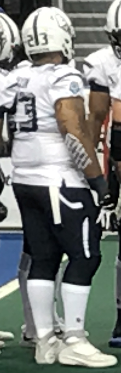 Baltimore Brigade offensive huddle